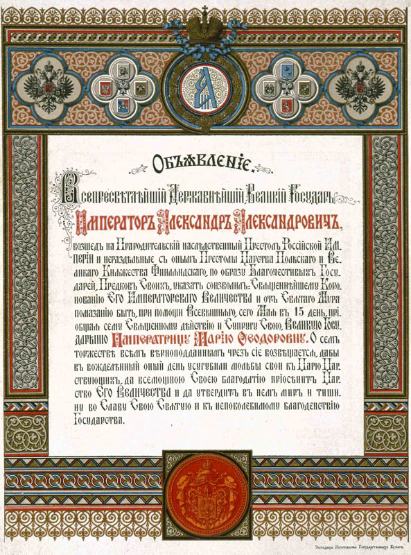 Announcement on coronation of Russian Emperor Alexander III